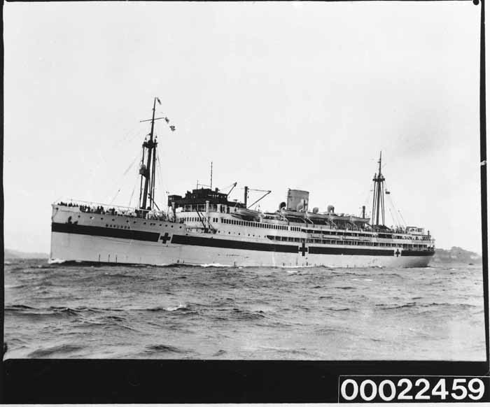 Manunda: This photo is part of the Australian National Maritime Museum’s Samuel J. Hood Studio Collection. Sam Hood (1870-1956) was a Sydney photographer with a passion for ships. His 72-year career spanned the romantic age of sail and two world wars. The photos in the collection were taken mainly in Sydney and Newcastle during the first half of the 20th century. The ANMM undertakes research and accepts public comments that enhance the information we hold about images in our collection. This record has been updated accordingly. Photographer: Samuel J. Hood Studio Collection Object no. 00022459